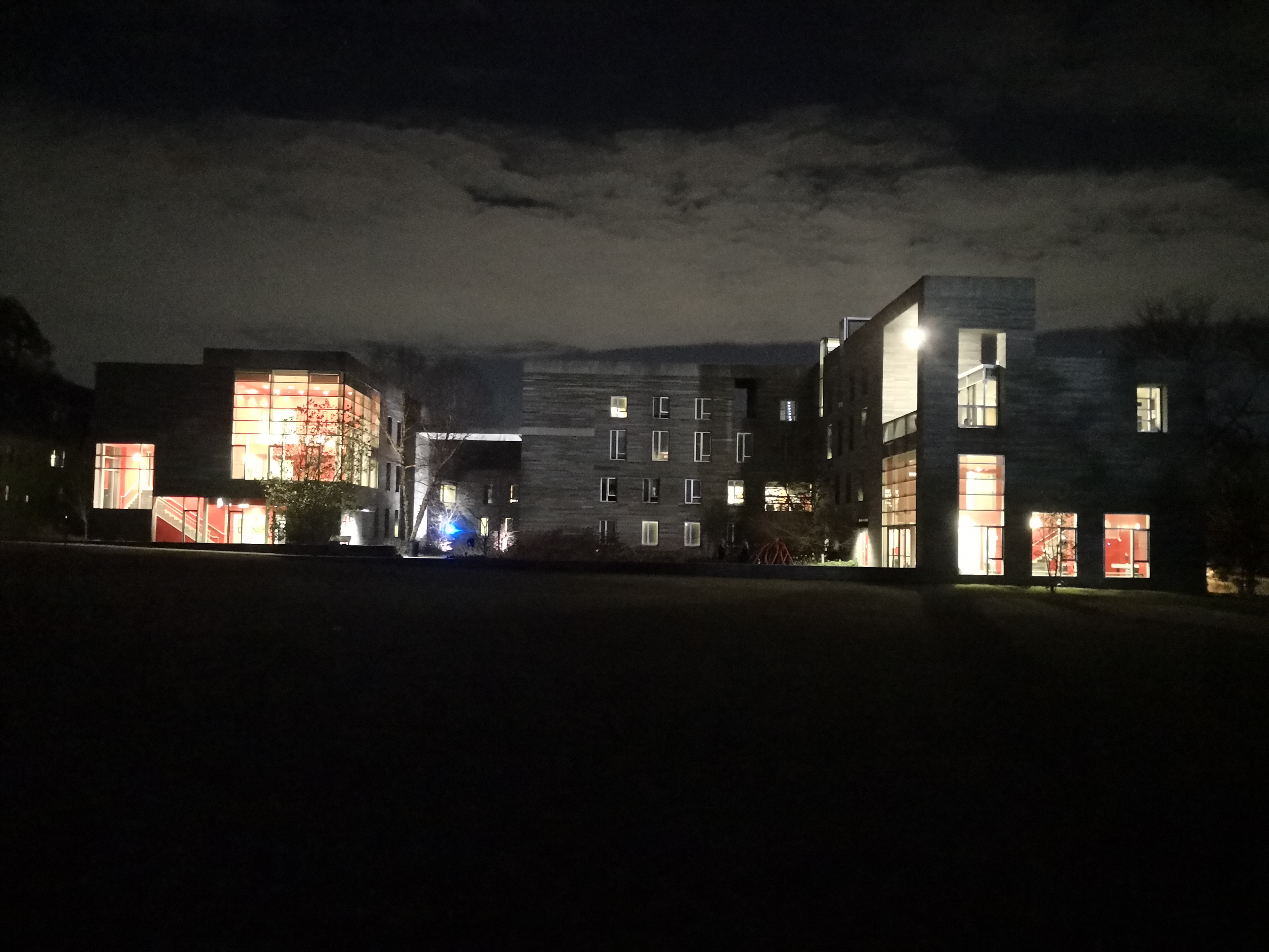 Alice Paul and David Kemp at night